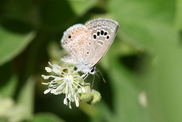 Echinargus isola